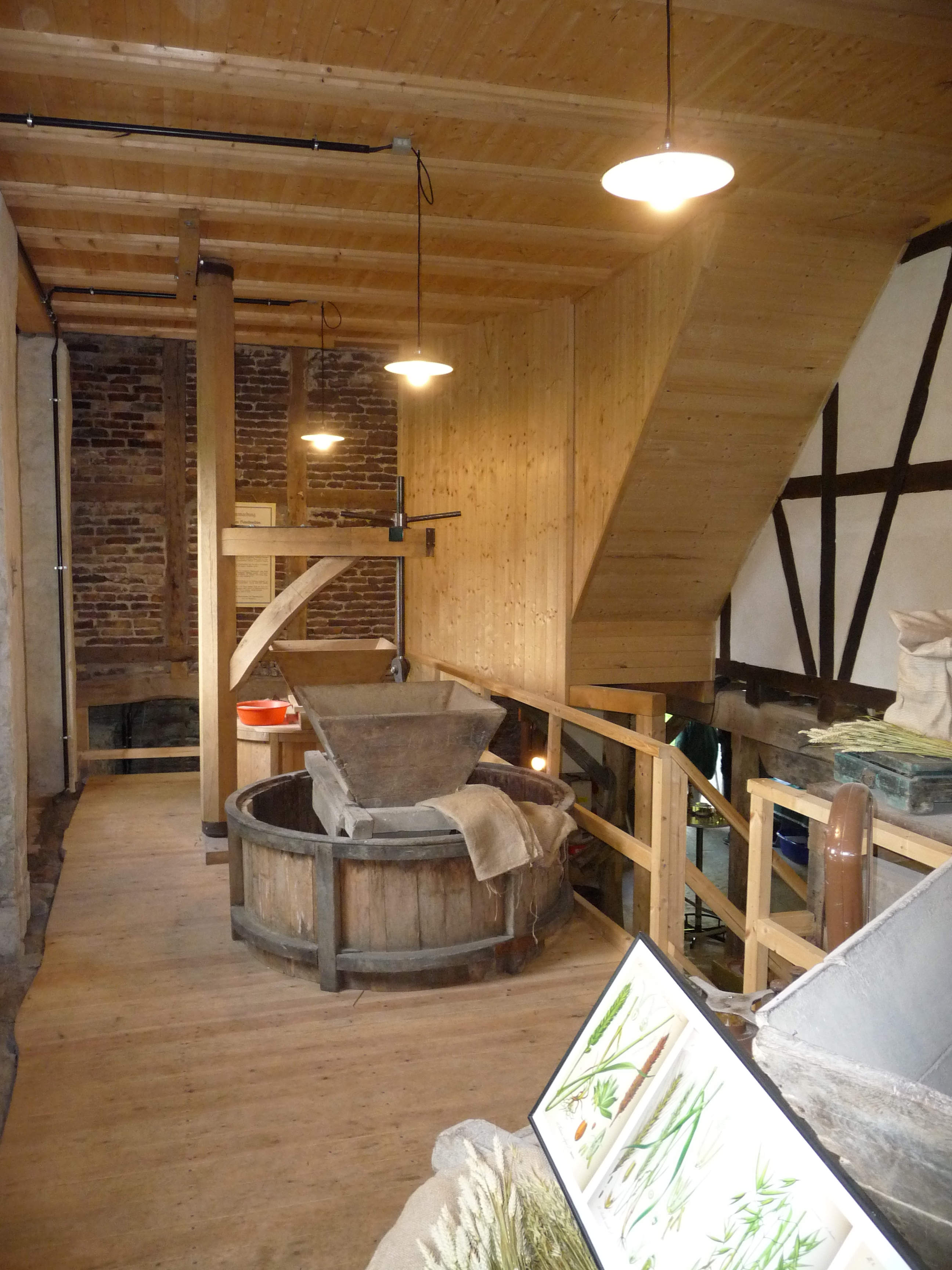 Interior of the old mill in Ramsbeck